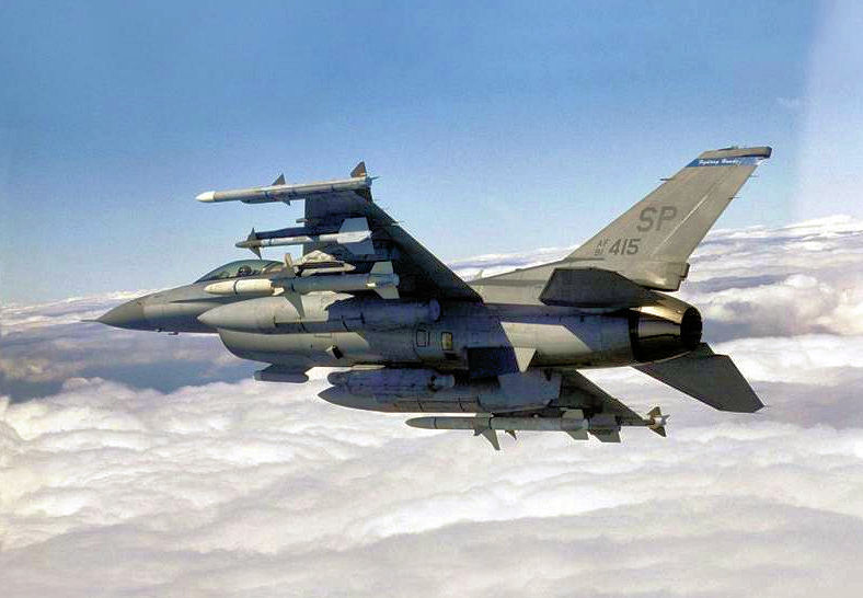 USAF F-16C block 50 #91-0415 aircraft from USAFE's 52nd FW operate as Wild Weasels. This specimen's equiped with wingtip Amraams, Sidewinders on stations 2 and 8, and AGM-88 HARM anti-radiation missiles. Note the AN/ASQ-213 Harm Targetting System pod on the starboard intake station. [USAF photo]